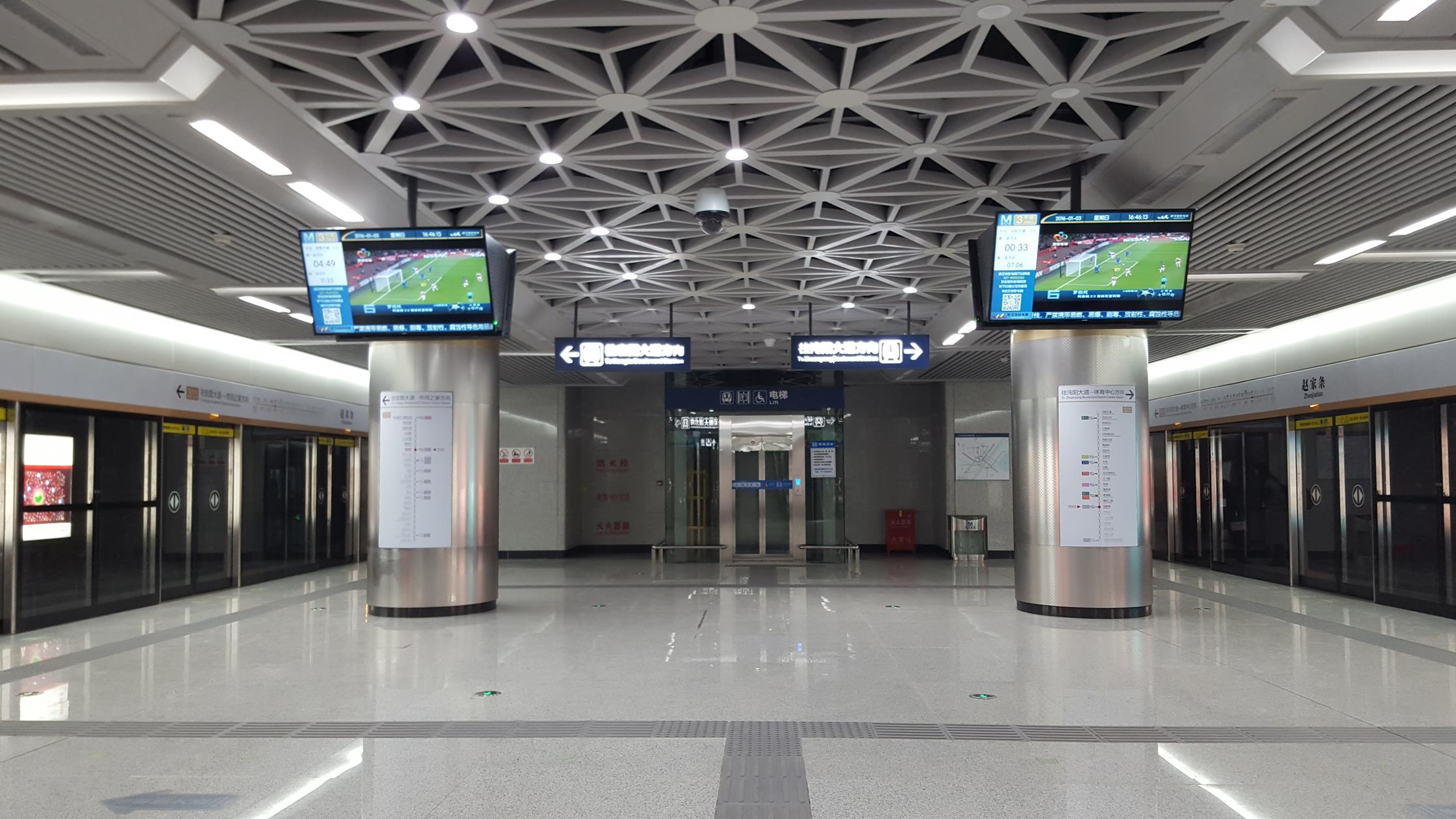 Platform of Zhaojiatiao Station, Wuhan Metro Line 3